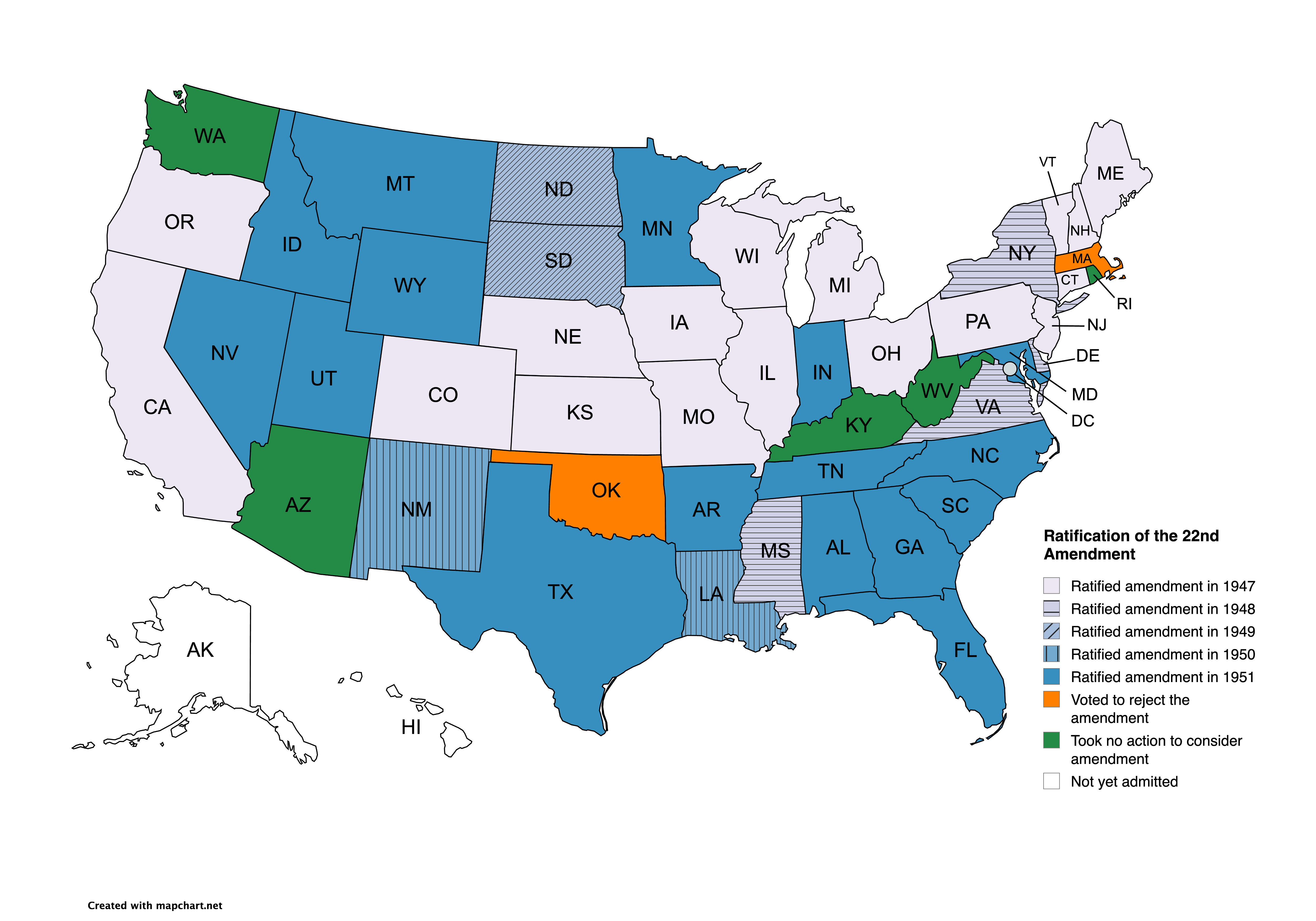 This map shows how states voted with regards to the twenty-second amendment